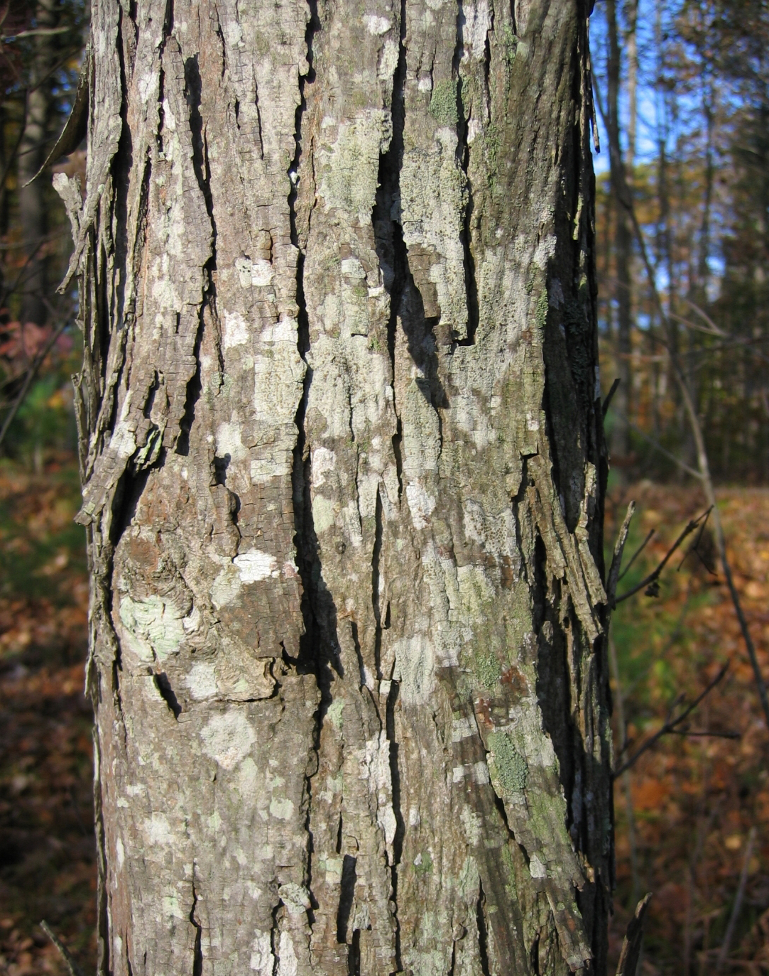 Carya ovata bark